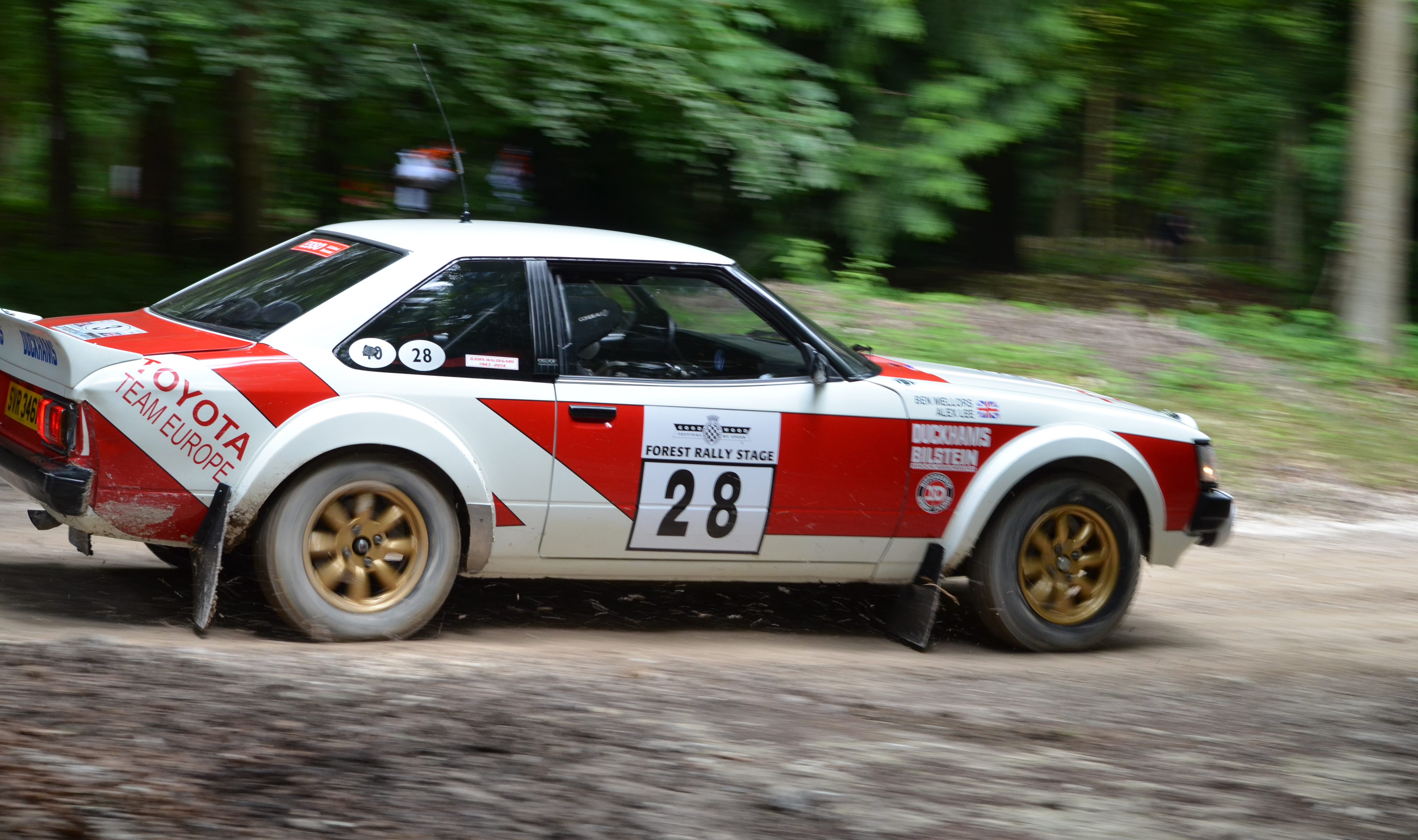 Goodwood Festival of Speed 2016